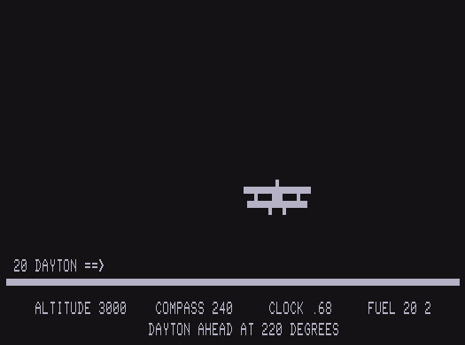 Screenshot of Airmail Pilot, approaching the airfield at Dayton.